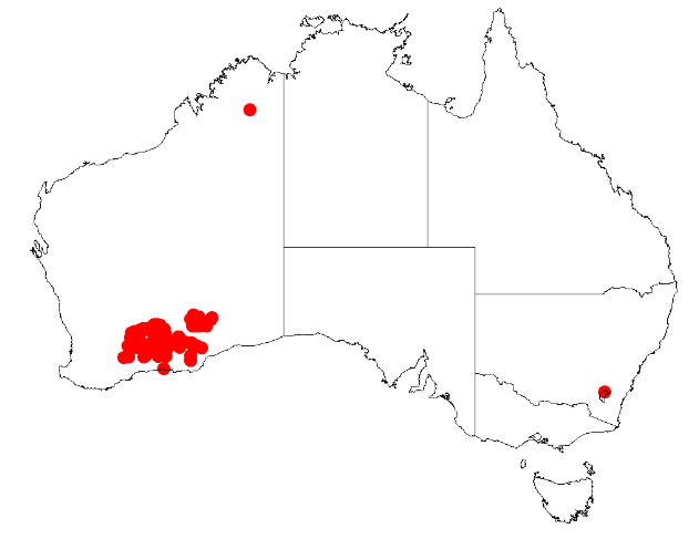 Acacia camptoclada Occurrence data from Australasia Virtual Herbarium downloaded from on 8 December 2018